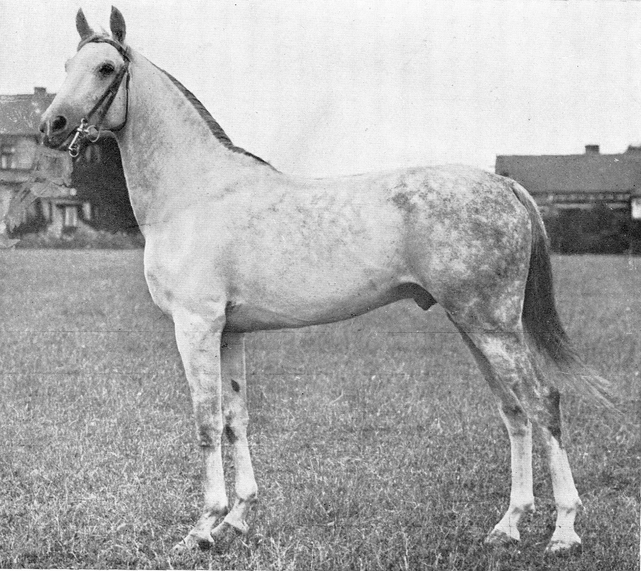 Arabian stallion Shahzada (GB) foaled in 1913, winner of two 300 mile endurance races carrying 13½ stone. Imported to Australia in 1925 and was the Champion Arab Stallion at Sydney Royal Show for 8 successive years.